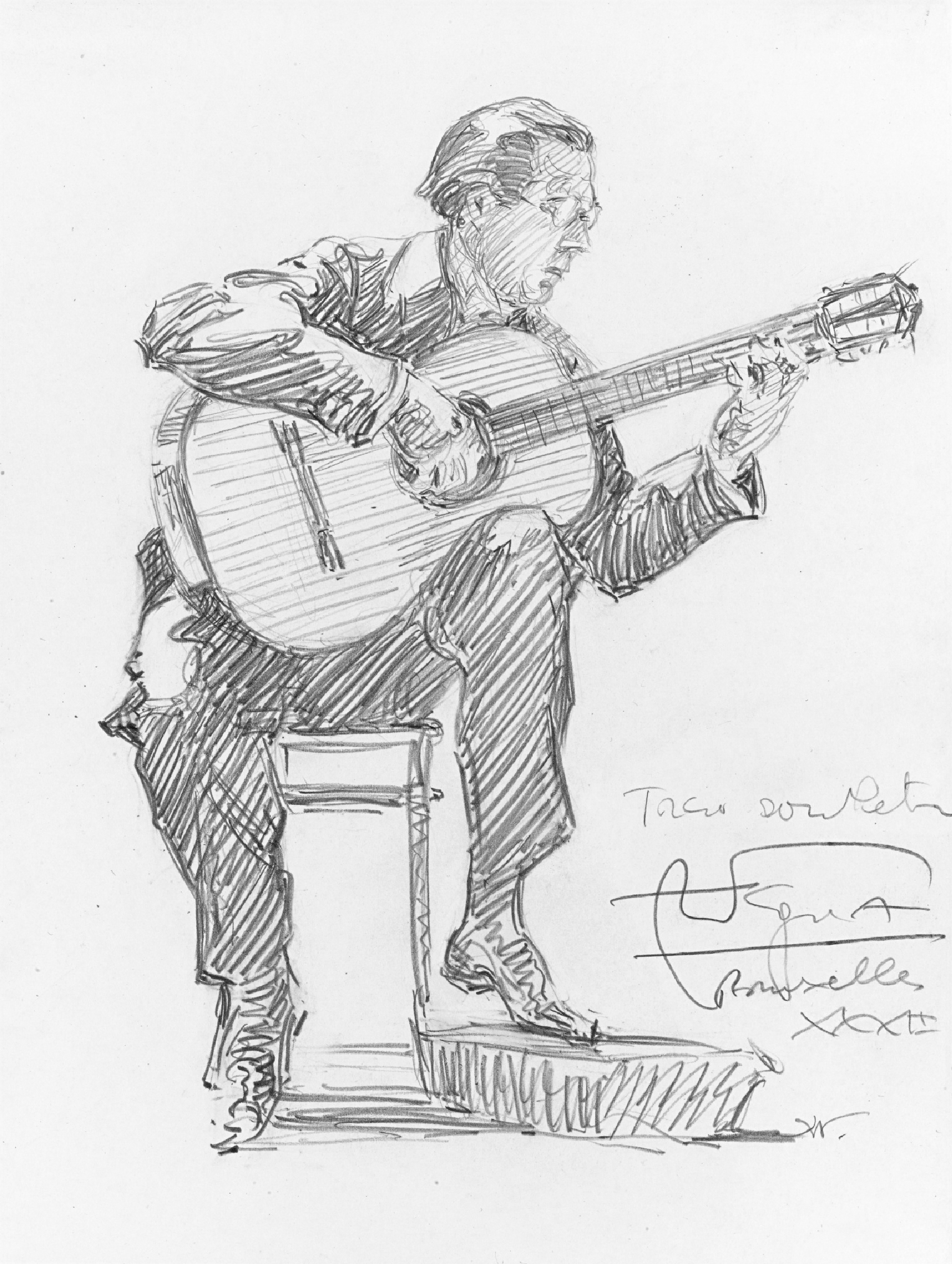 Andrés Segovia at a recital in the "Concerts Ysaye" in Brussels, 15 December 1932 pencil on paper 22.8 x 17.2 cm signed l.r: "ASegovia Bruxelles XXXII signed b.r.: HW.